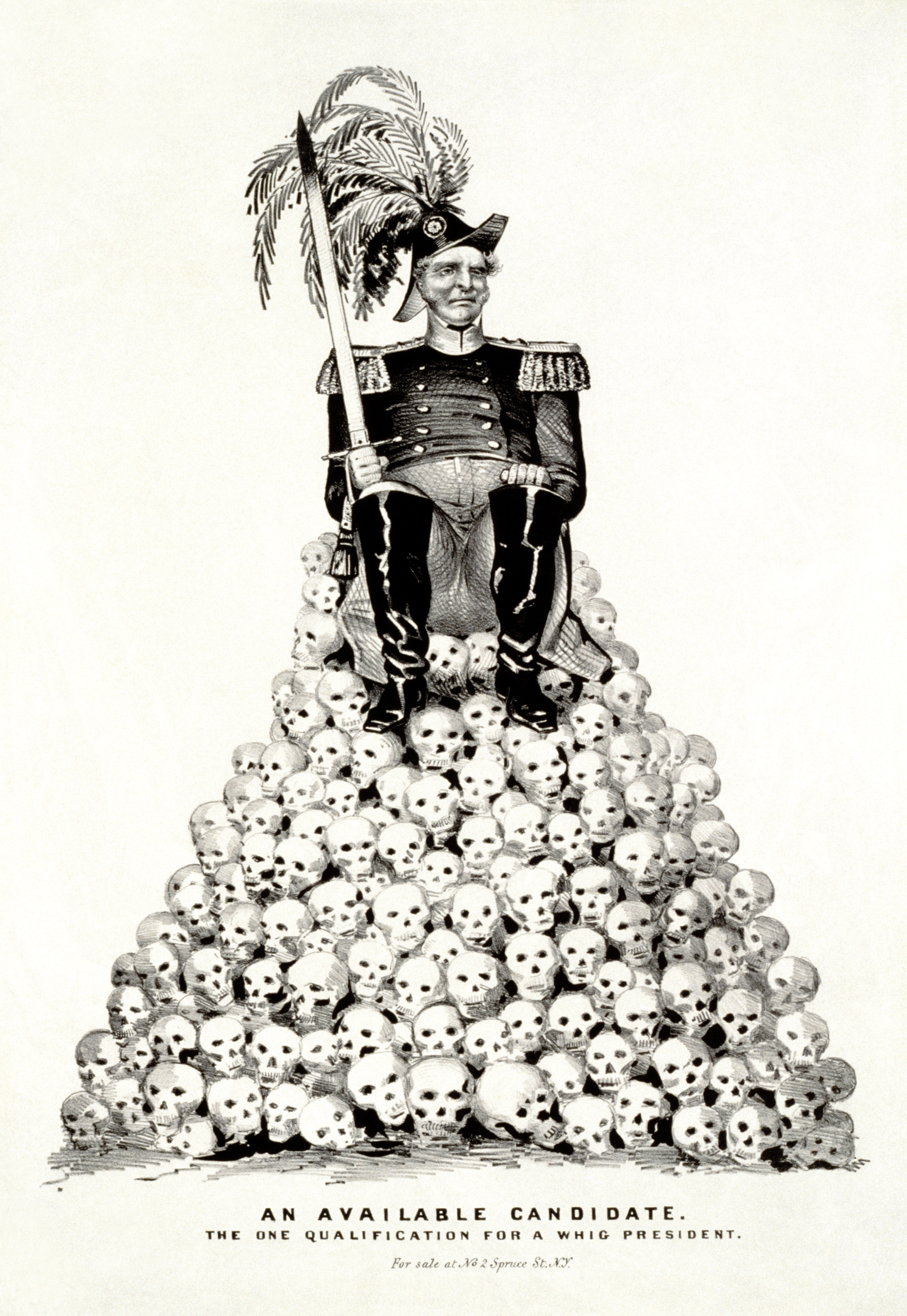 1848 anti-Whig cartoon. Original caption: "An Available Candidate. The one qualification for a Whig president." Library of Congress commentary: "Political cartoon showing man in military uniform, with epaulets and plumed hat, holding sword and seated on pile of skulls. A scathing attack on Whig principles, as embodied in their selection of a presidential candidate for 1848. Here the 'available candidate' is either Gen. Zachary Taylor or Winfield Scott, both of whom were contenders for the nomination before the June convention. The figure sits atop a pyramid of skulls, holding a blood-stained sword. The skulls and sword allude to the bloody but successful Mexican War campaigns waged by both Taylor and Scott, which earned them considerable popularity (a combination of attractiveness and credibility termed 'availability') among Whigs. The figure here has traditionally been identified as Taylor, but the flamboyant, plumed military hat and uniform are more in keeping with contemporary representations of Scott. The print may have appeared during the ground swell of popular support which arose for Scott as a rival to Zachary Taylor in the few months preceding the party's convention in Philadelphia on June 7, 1848. On June 9 Zachary Taylor captured the Whig nomination." This is a Democratic cartoon; some would have considered it hypocritical, since overall the Democratic party had been much more enthusiastically gung-ho about the Mexican war than the Whig party.